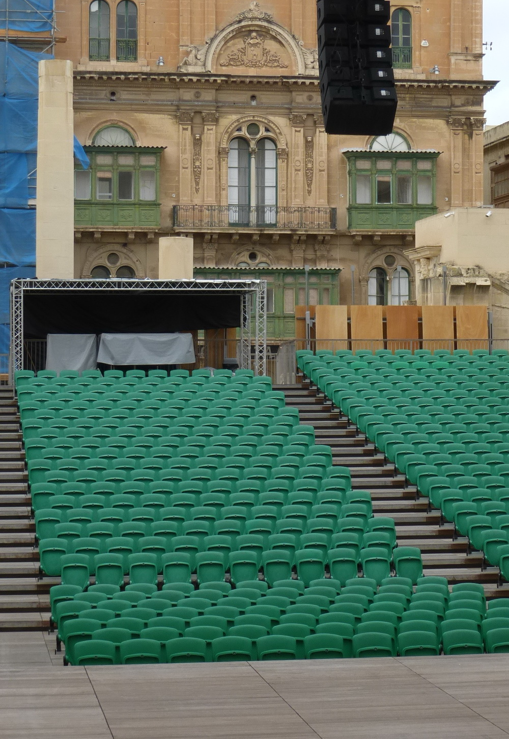 Auditorium of Pjazza Teatru Rjal in Valletta (Malta) with the stage in the foreground